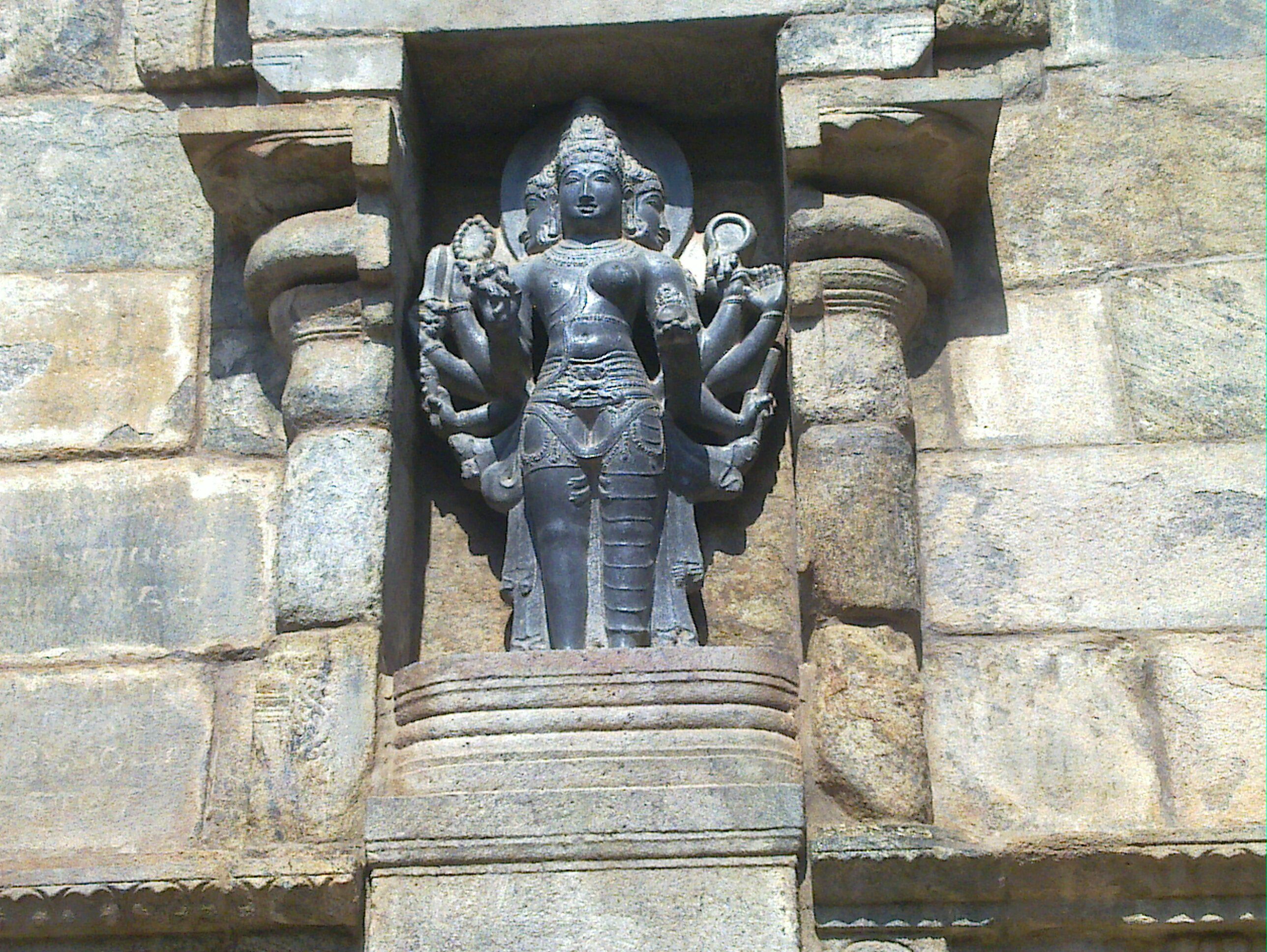 Muppuram eriththa Thripuraandhagar or Ardhanareeshwarar in Airavatesvara Temple-Tharasuram in Tamilnadu